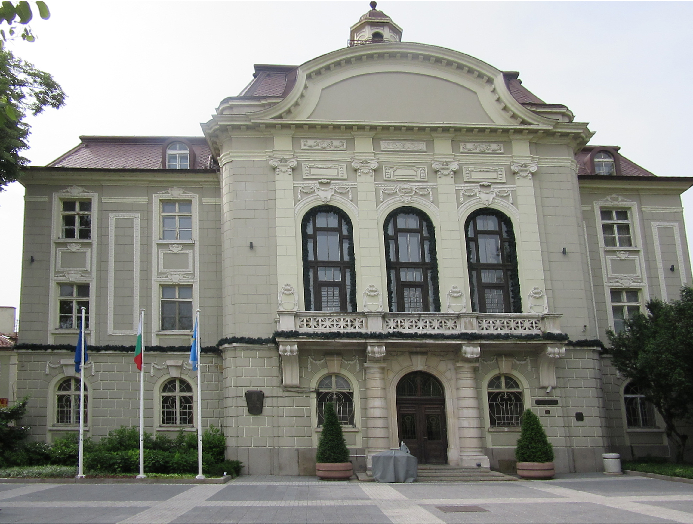 Plovdiv Municipality hall